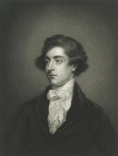 British writer William Beckford (1760-1844)